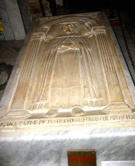 Photo of tomb of Fra Angelico, by Isaia da Pisa (1455), in Santa Maria sopra Minerva, Rome.